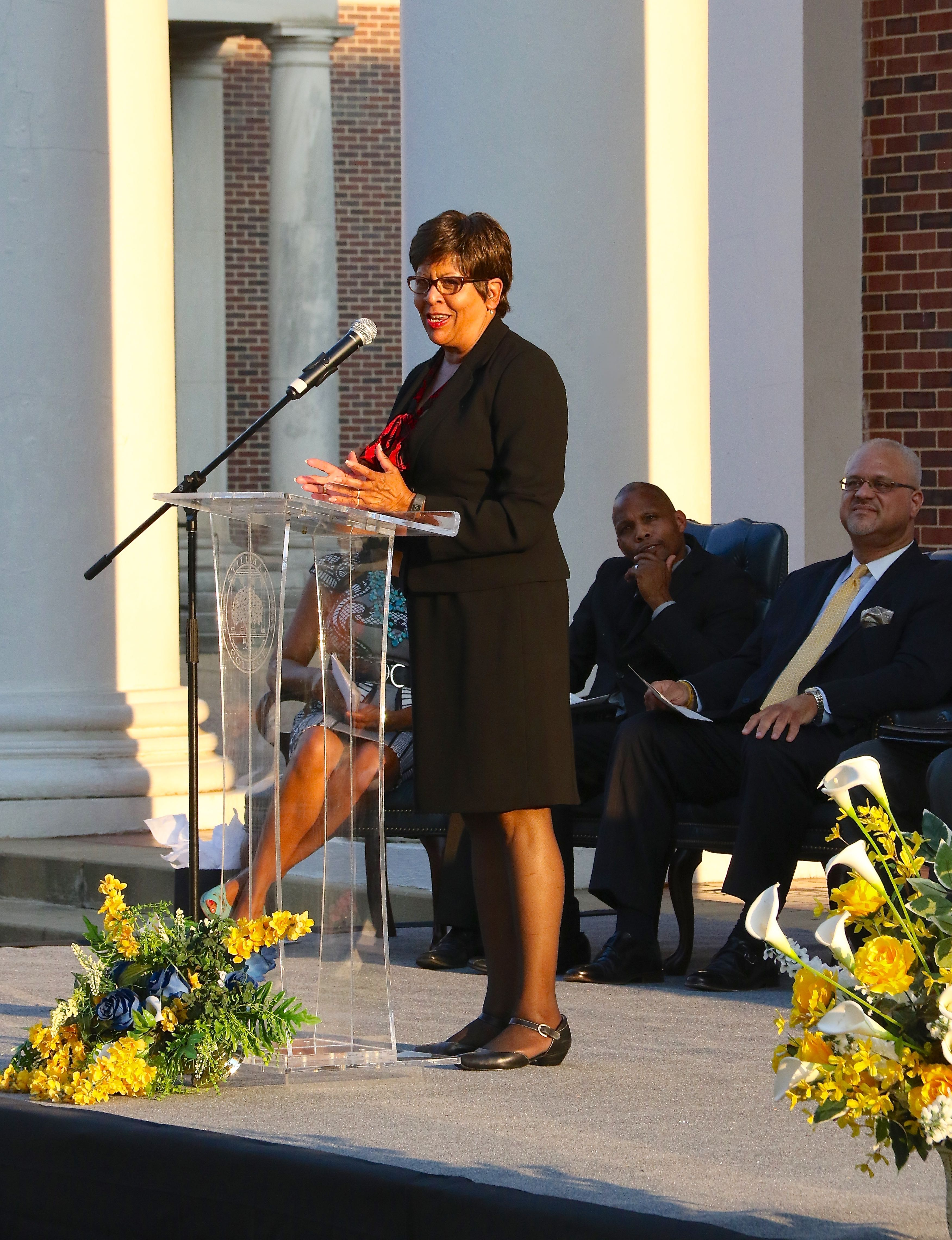 Dr. Cynthia Warrick at Student Government Installation Program in Fall 2018